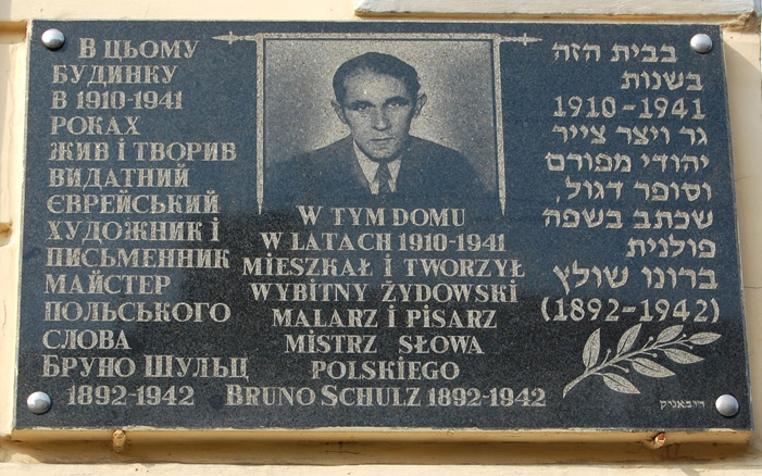 Bruno Schulz's memorial in Drohobycz.